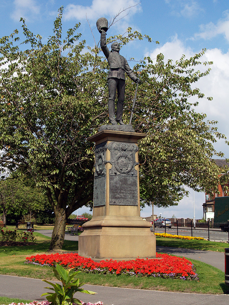 The Lancashire Fusiliers - The 20th of Foot Boer war memorial by sculptor George Frampton in Tower Gardens, Bury, Greater Manchester, England.